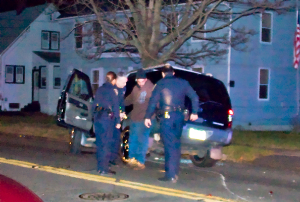 Police in Connecticut administer the one leg stand test to a driver after a crash. Photo was run through a paint daub filter to blur identifiable features of individuals